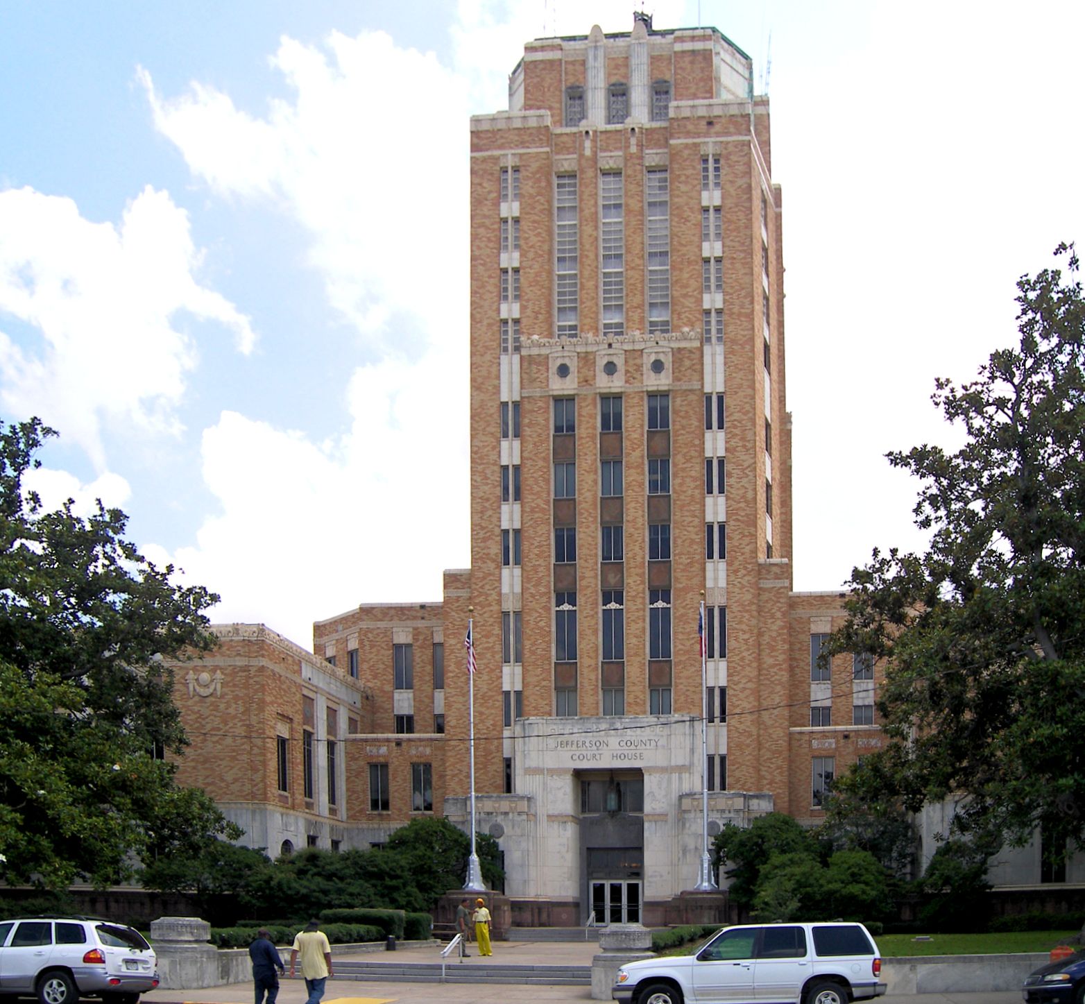 The Jefferson County, Texas courthouse in Beaumont, Texas. The Art Deco style building was listed on the National Register of Historic Places on June 17, 1982.